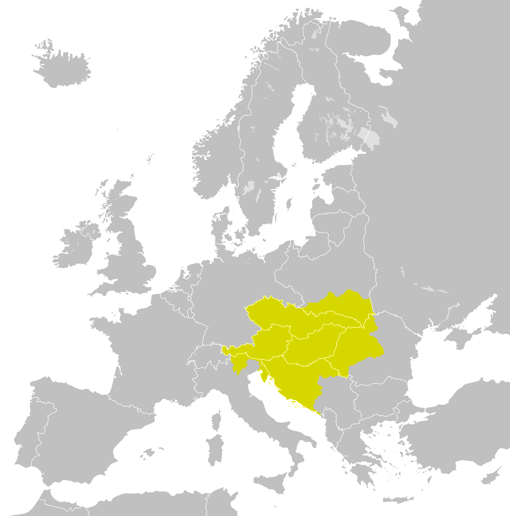 Austro-Hungarian Monarchy (1914) over postwar map of Europe (1929)